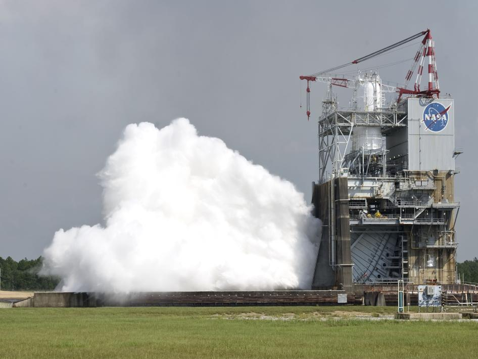 NASA conducted a 40-second test of the J-2X rocket engine Sept. 28, the most recent in a series of tests of the next-generation engine selected as part of the Space Launch System architecture that will once again carry humans into deep space. It was a test at the 99 percent power level to gain a better understanding of start and shutdown systems as well as modifications that had been made from previous test firing results. The test at NASA's John C. Stennis Space Center in south Mississippi came just two weeks after the agency announced plans for the new SLS to be powered by core-stage RS-25 D/E and upper-stage J-2X engines. The liquid hydrogen/liquid oxygen J-2X is being developed for NASA's Marshall Space Flight Center in Huntsville, Ala., by Pratt & Whitney Rocketdyne.